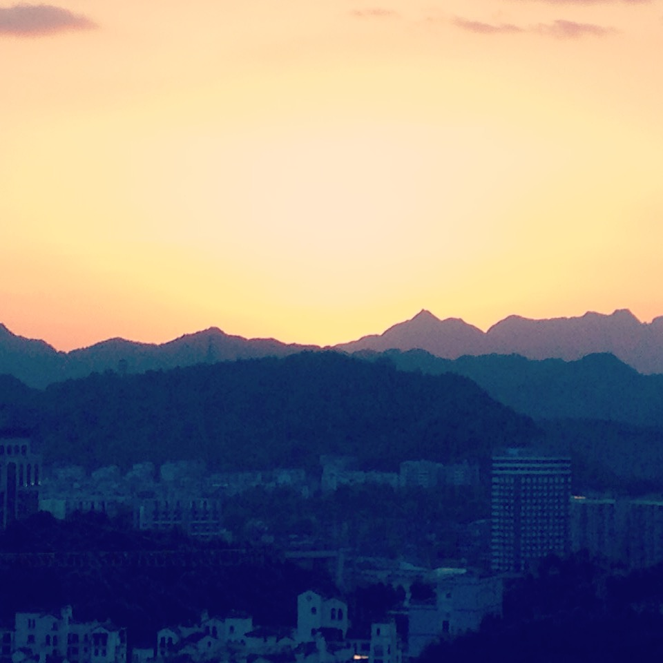 Zunyi Ridgeline at Dusk